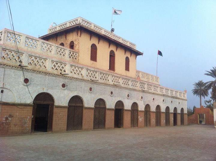 Bhayo House